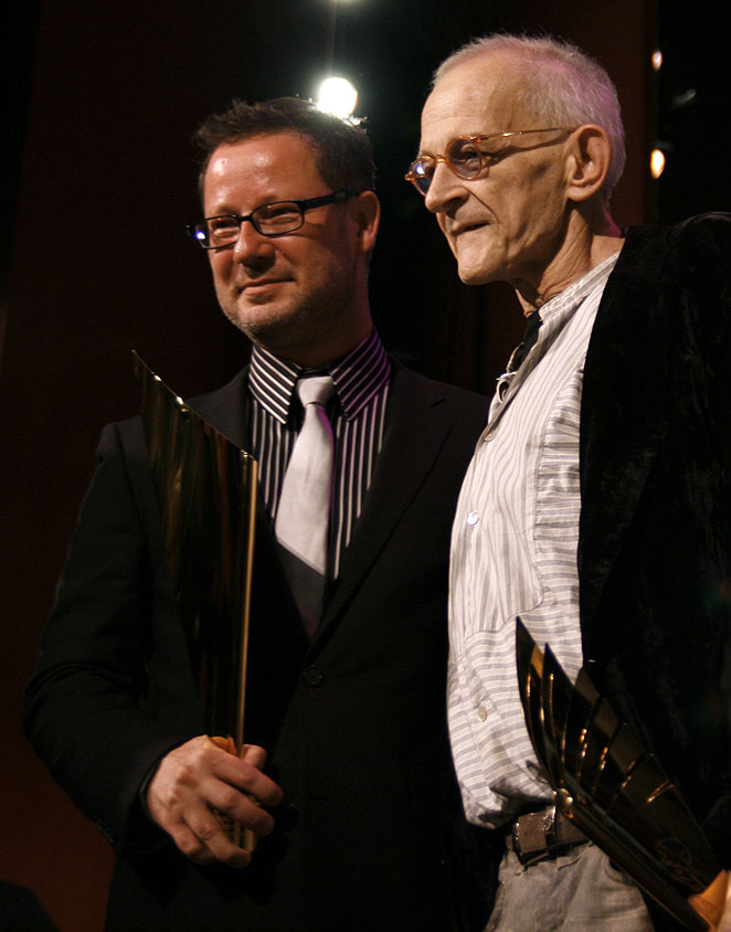 Andreas Beck and Gert Jonkewinners at the Nestroy-Theaterpreis 2008 (Etablissement Ronacher, Vienna).